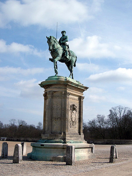 Paul Dubois (French, 1829-1905): Anne de Montmorency, 1886, equestrian statue beside the Château de Chantilly, Oise, France.